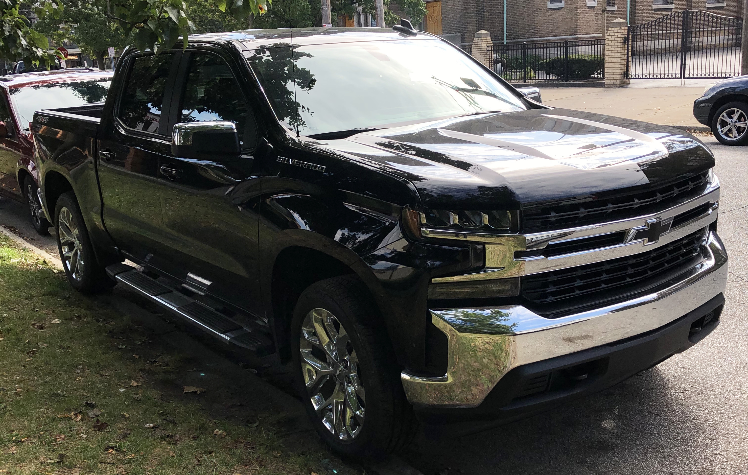 The front of a 2019 Chevrolet Silverado LT Crew Cab